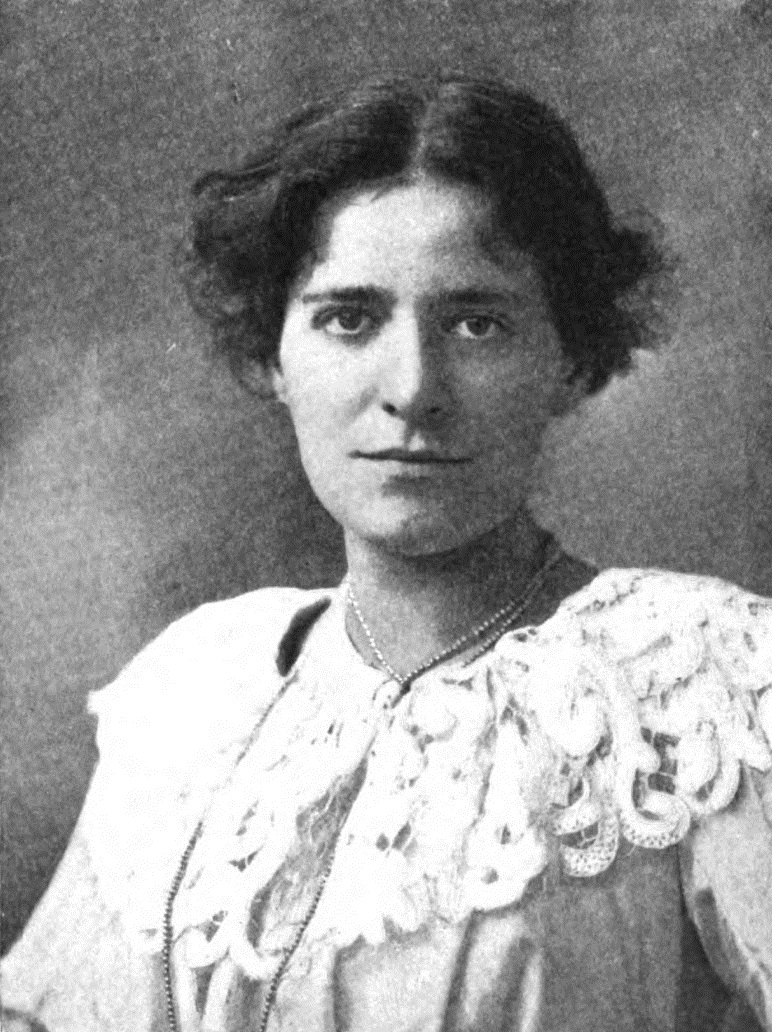 Edith Rickert